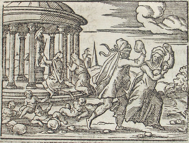 Deucalion and Pyrrha. Engraving by Virgil Solis for Ovid's Metamorphoses Book I, 347-415. Fol. 7v, image 11.